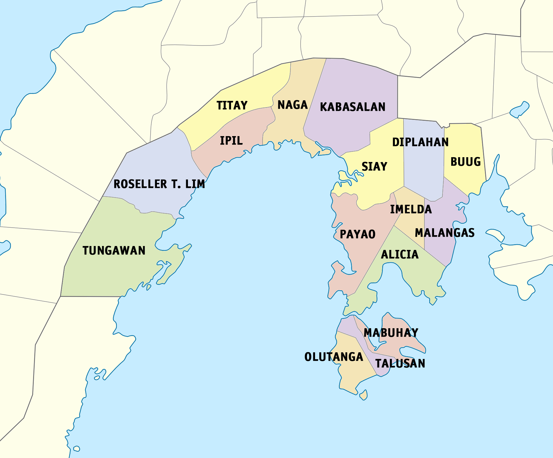 Political map of Zamboanga Sibugay, Philippines